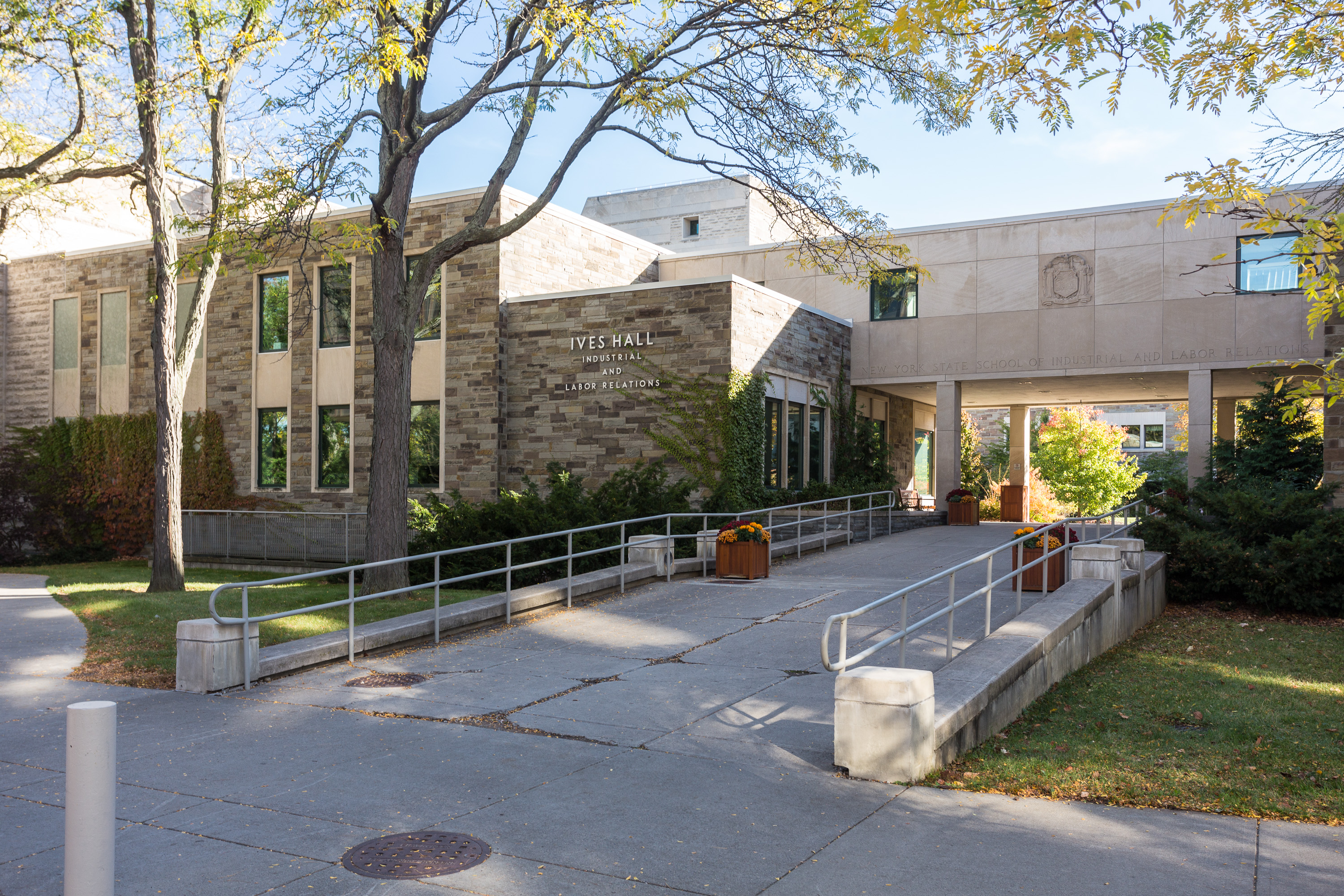 Ives Hall, Cornell University